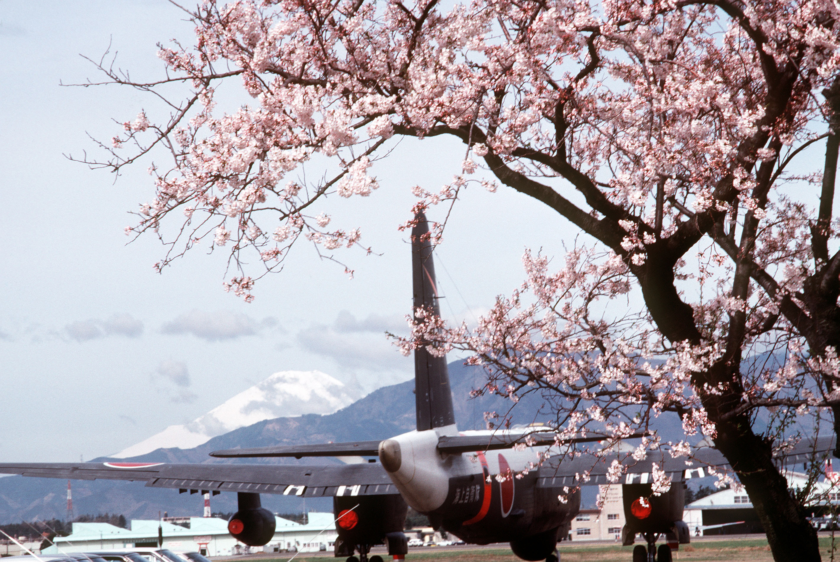 Right rear view of a Japanese P-2J Neptune (note the twin-wheel main gear) aircraft framed by cherry blossoms. A Japanese framed by cherry blossoms at the Naval Air Facility, Atsugi, Japan in 1985 Location: NAVAL AIR FACILITY, ATSUGI